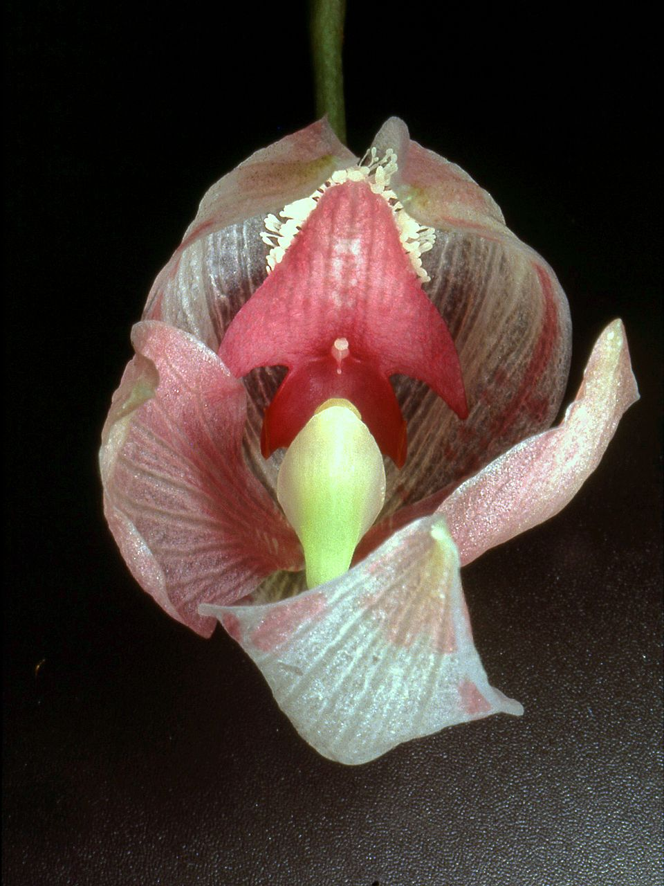 Paphinia seegeri - flower